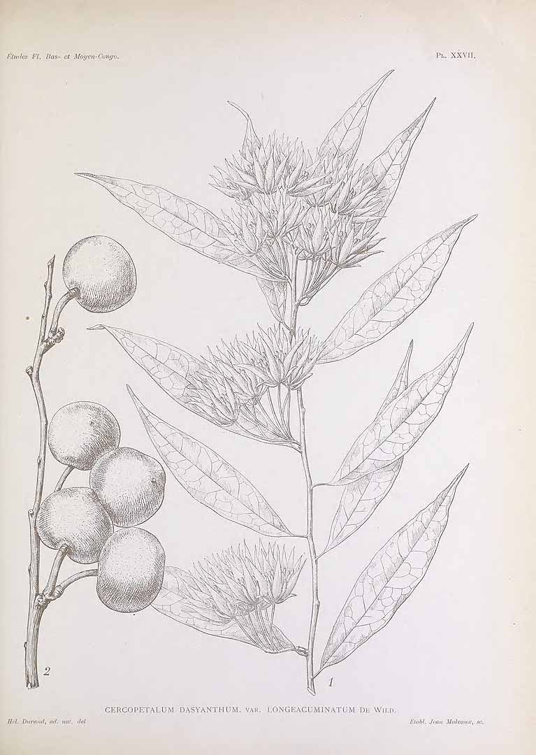 Pentadiplandra brazzeana Baillon var. longeacuminatum, named Cercopetalum dasyanthum Gilg var. longeacuminatum, as published in: Wildeman, E. de, Études de systematique et géographie botanique sur la flore du Bas-et du Moyen Congo [in: Annales du musée du Congo. Botanique, Série 5], Plates 1-27, vol. 3(1): t. 27 (1909)